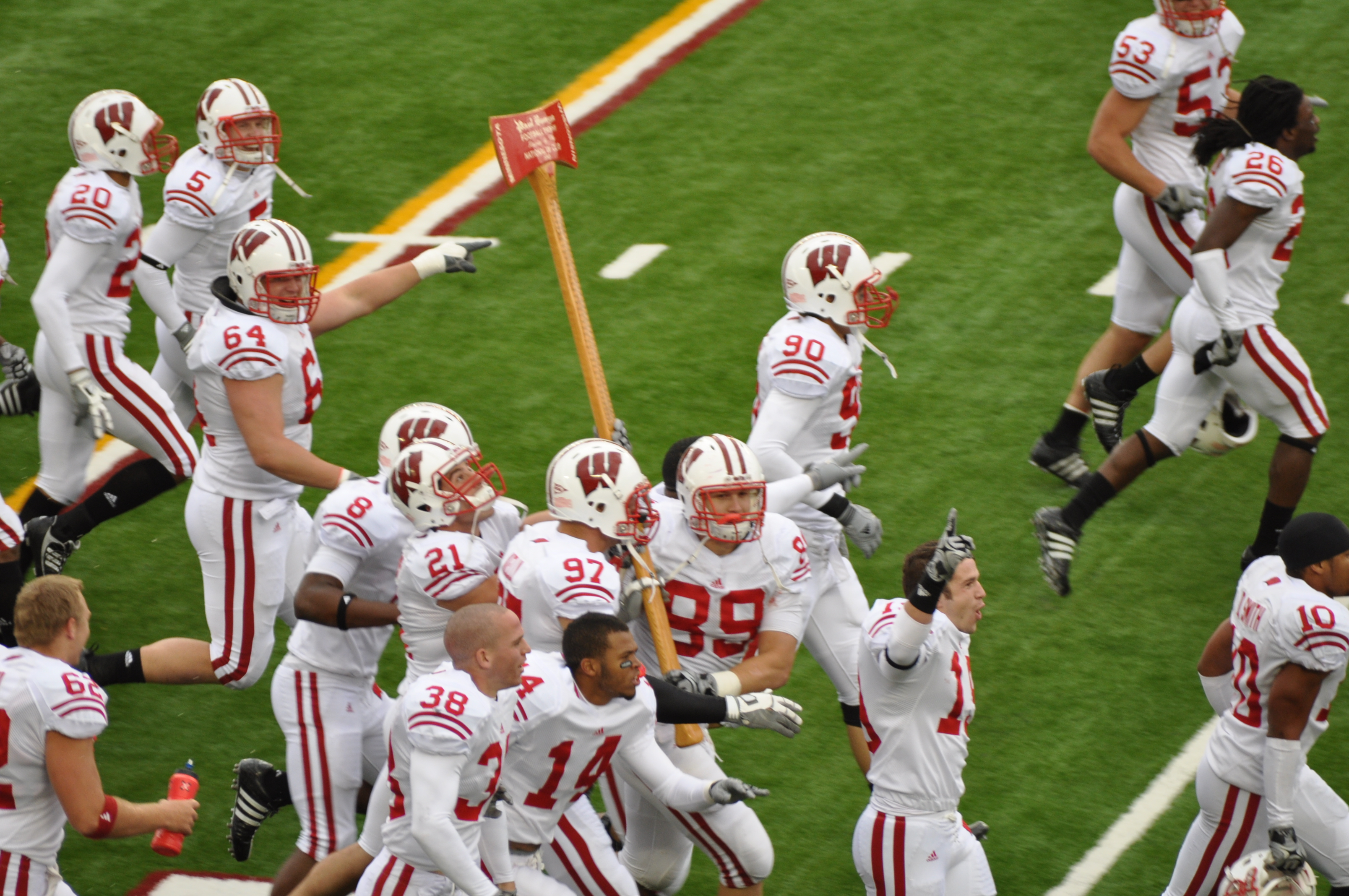 Wisconsin Badgers celebrating their win over Minnesota Golden Gophers by carrying around Paul Bunyan's Axe after the game Oct 3, 2009